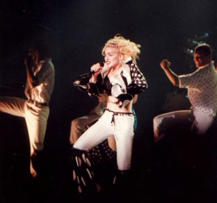 Photo taken during one of the concerts in 1990